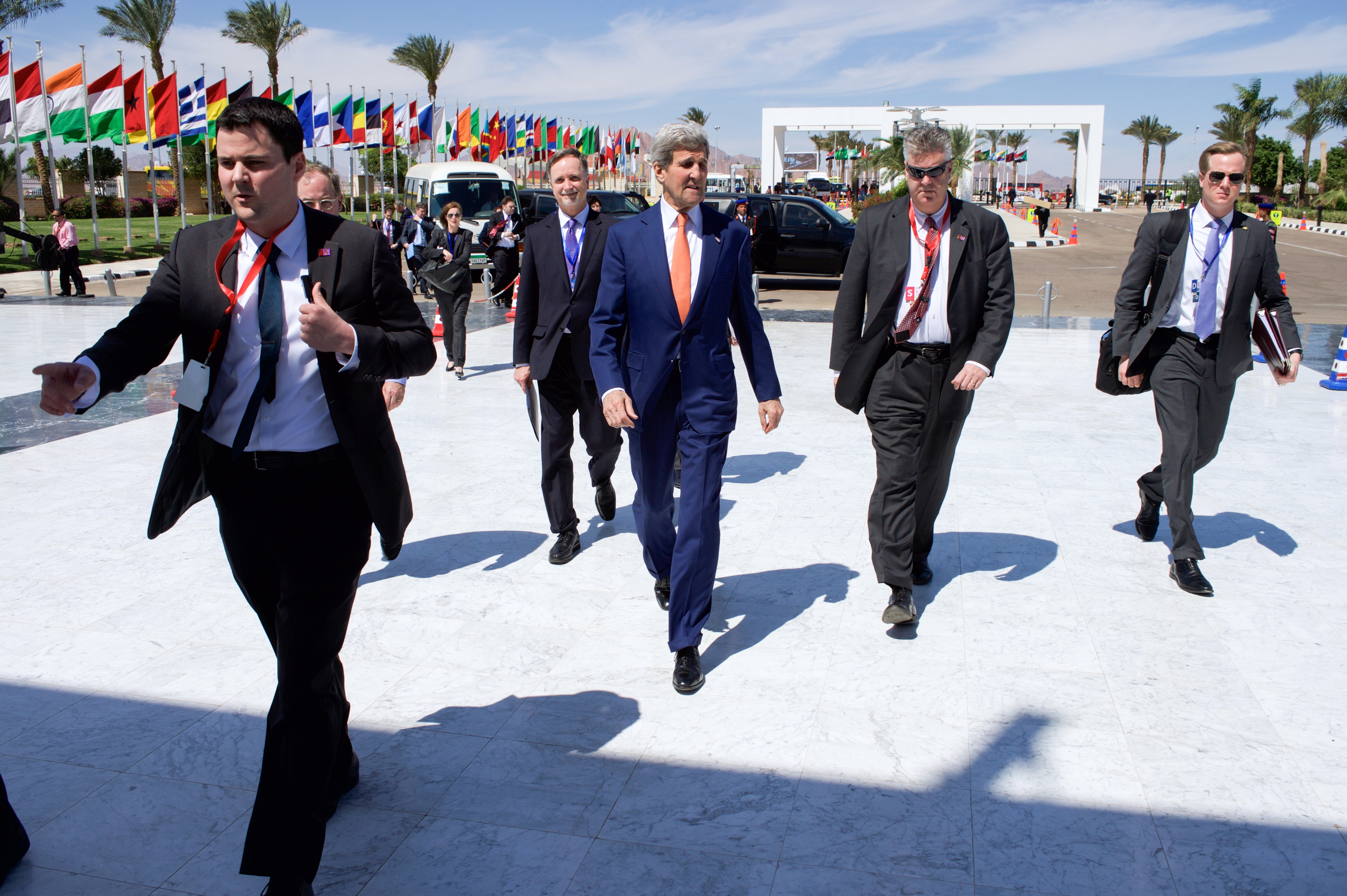 U.S. Secretary of State John Kerry arrives at the Congress Center in Sharm el-Sheikh, Egypt, on March 13, 2015, before meetings with President Abdel Fattah al-Sisi, other regional leaders, and his attendance at an Egyptian development conference. [State Department Photo/Public Domain]